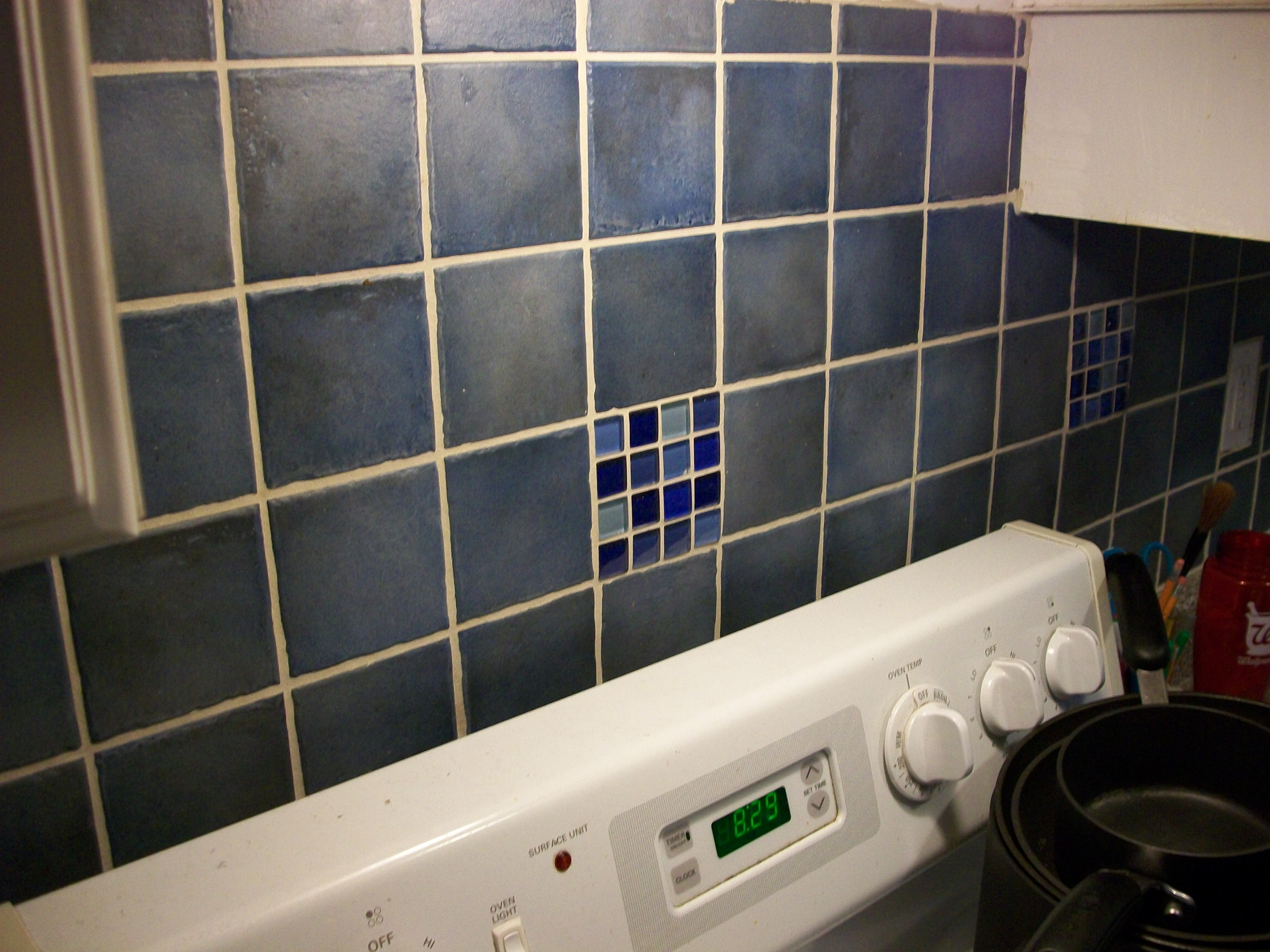 Tiling is a do-it-yourself project. First attach a board to hold the second to the bottom row of tiles. Put the first row of tiles above this. Work upwards (tiles won't slink down because of their weight, since the board is holding them up). Last, remove the board, and put in the lowest row of tiles.